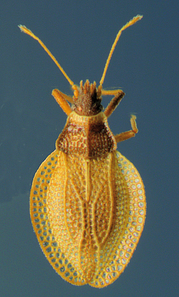 Zetekella caroli spec. nov., female allotype, dorsal aspect; the left interocular plaque is well visible. Length: 2 mm